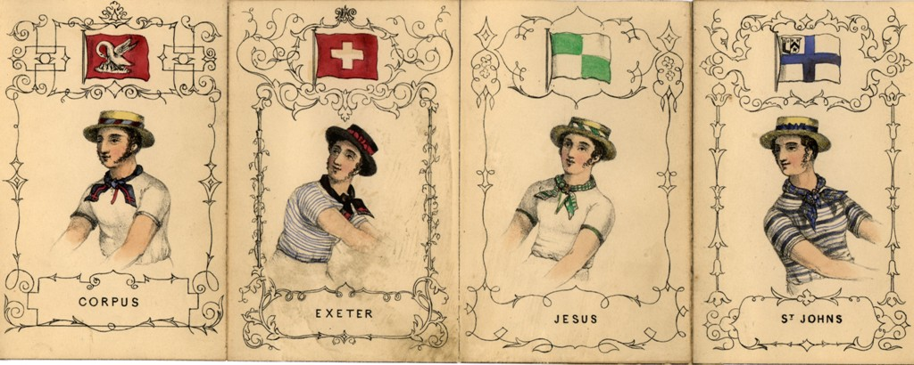 Oxford college rowing jerseys - booklet of lithograph plates - 2 of 6 - c. 1848